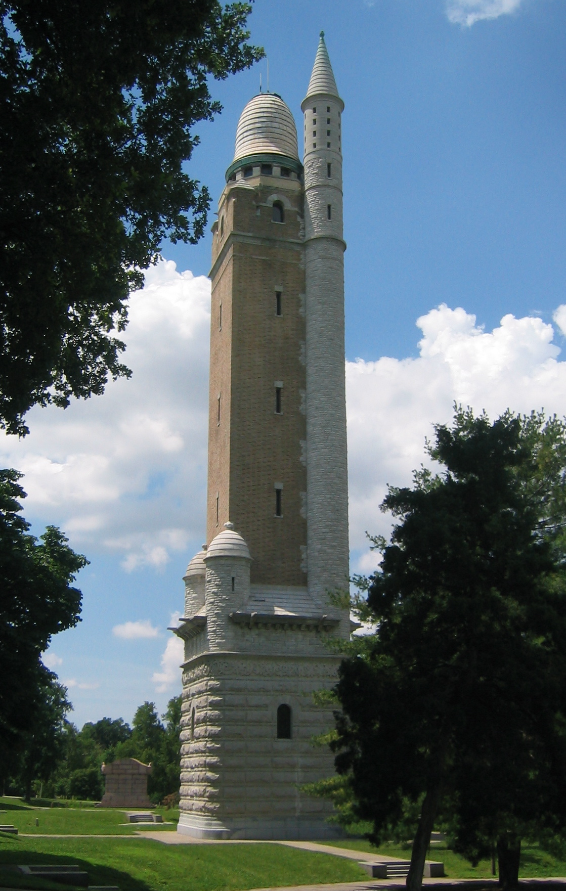 Compton Hill Water Tower at Compton Hill Reservoir Park in St. Louis, Missouri seen looking south.